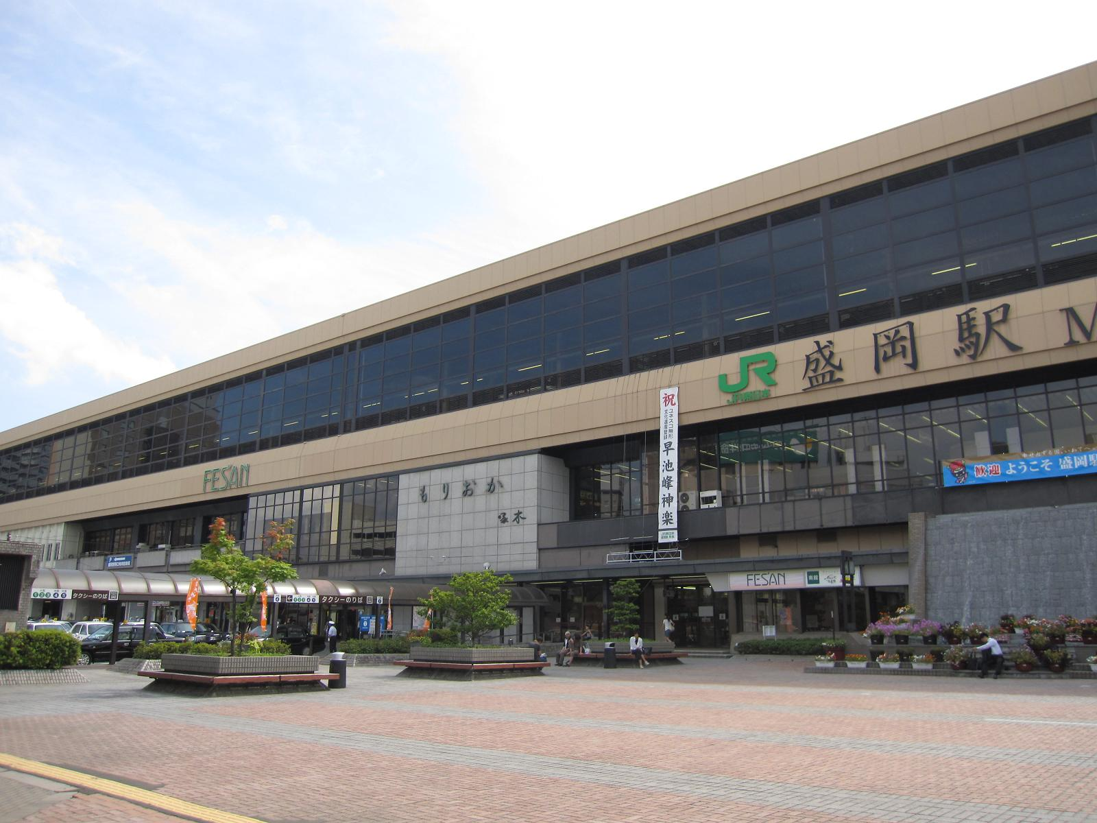 Morioka Station